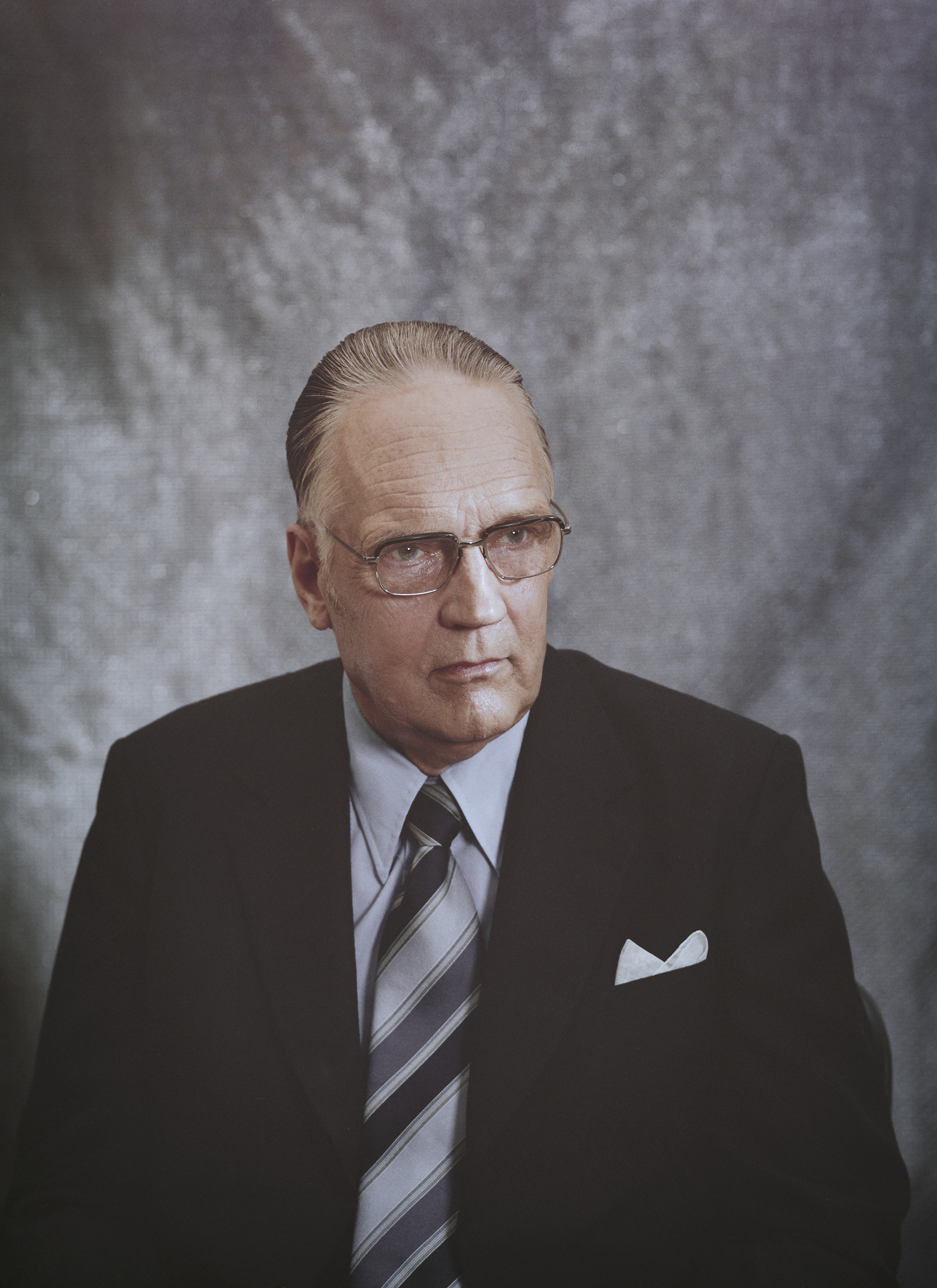 Photograph of the Finnish linguist and professor Paavo Siro (1909–1996).